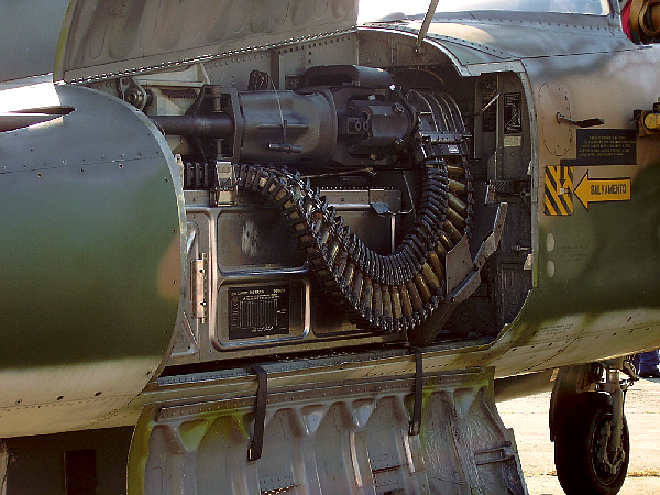 It is a Pontiac cannon. My own work. Local: brazilian air force museum - 07/16/2006.